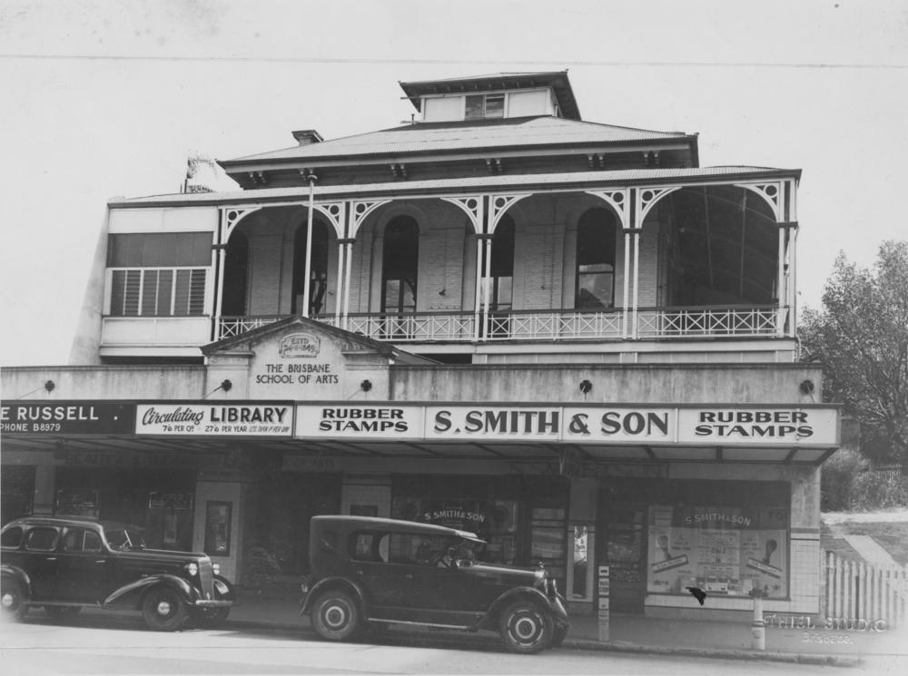 Brisbane School of Arts Building, 1937. The Brisbane School of Arts building was erected in 1865-66. It was originally known as the Servants Home, providing accomodation for single adult females who had migrated to Queensland and were awaiting employment as domestic servants. The building was designed by H. Edwin Bridges, and comprised a ground floor and two upper galleries. The contractors were Messrs Butler and Forster. In 1873 the property was purchased by the trustees of the North Brisbane School of Arts for £1000. The building was let to tenants for several years before it was converted to a school of arts. In 1877 contractor Blair Cunningham added verandahs and other modifications designed by Richard Gailey. The new School of Arts building was opened on 17 May 1878. In 1884 a hall was added to the rear to meet the needs for technical education classes. The lending library was another major activity of the School of Arts and in 1908 an extension was built besides the hall to accomodate the growing number of books. Membership of the School of Arts steadily declined during the 1920s and 1930s. To increase revenue shops were built in front of the building in 1937. In 1955 a brick upper storey was added to the shops with connections to the School of Arts building. At this time the verandahs were removed. In 1966 trusteeship of the property was transferred to the Brisbane City Council which continued to operate a public library on the site until 1981. In 1983 the front offices and shops were demolished and restoration of the building began. The building re-opened on 13 February 1985 and is currently let to various community groups. (Information taken from: Queensland Heritage Register, retrieved on 3 December 2004 at ).